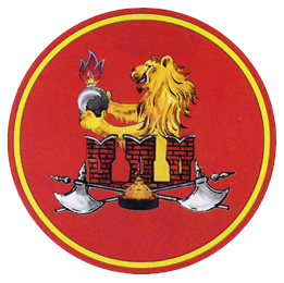 Ground Forces Sleeve insignia of the 154th ICR